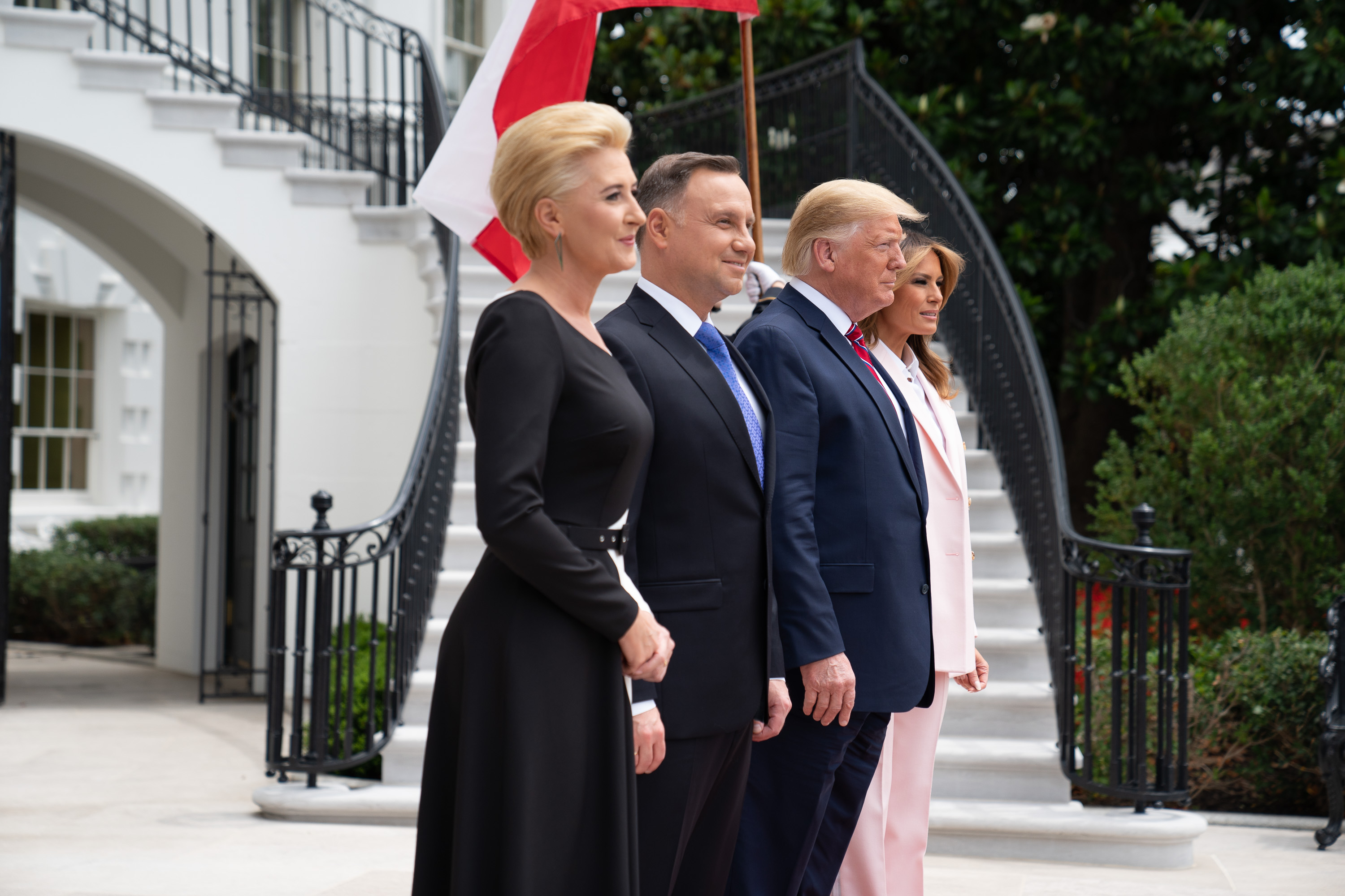 President Donald J. Trump and First Lady Melania Trump pose for a photo with Polish President Andrzej Duda and his wife Mrs. Agata Kornhauser-Duda Wednesday, June 12, 2019, at the South Portico entrance of the White House. (Official White House Photo by Shealah Craighead)